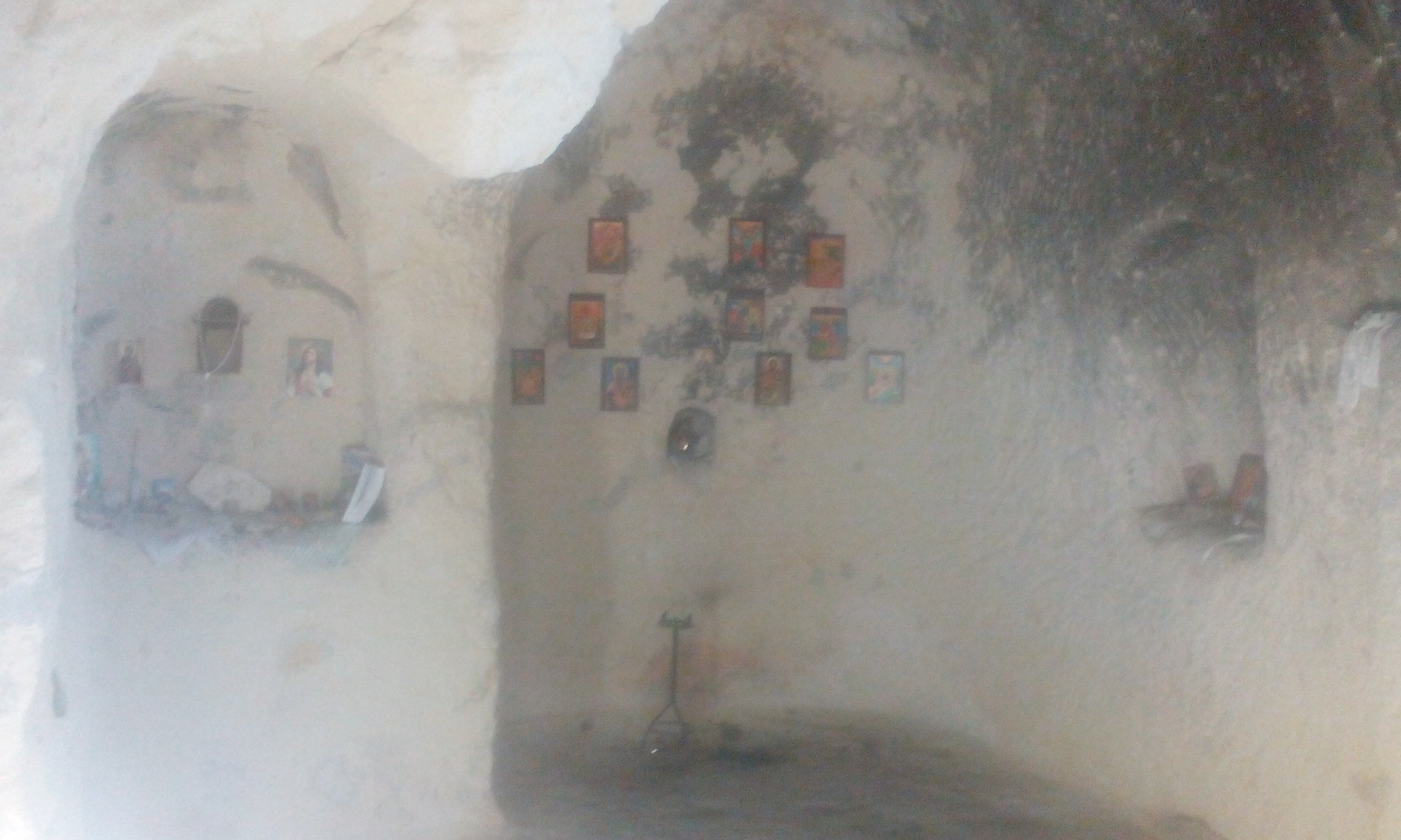 Khan Krum Rock-hewn